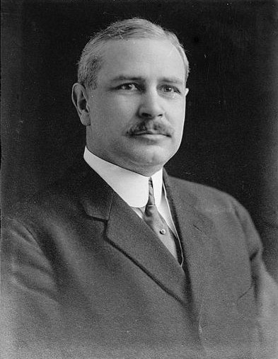 James Fairman Fielder (1867 – 1954), American Democrat politician, Governor of New Jersey